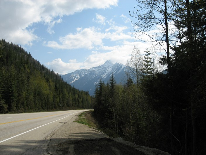 Trans-Canada Highway, Revelstoke Mountain